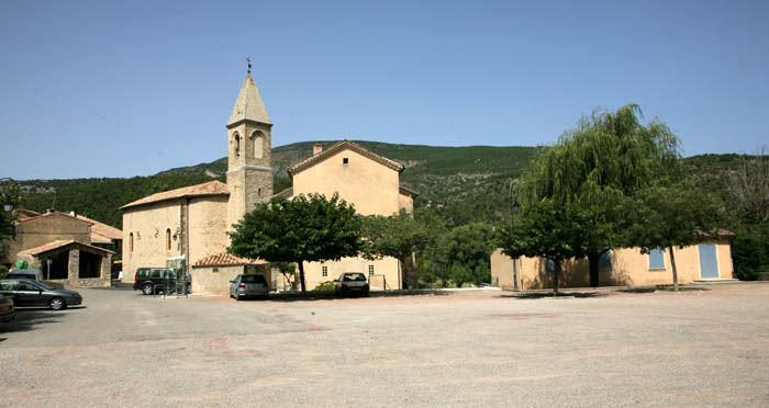 Church, school and town office of the village of Savoillan - Vaucluse, France